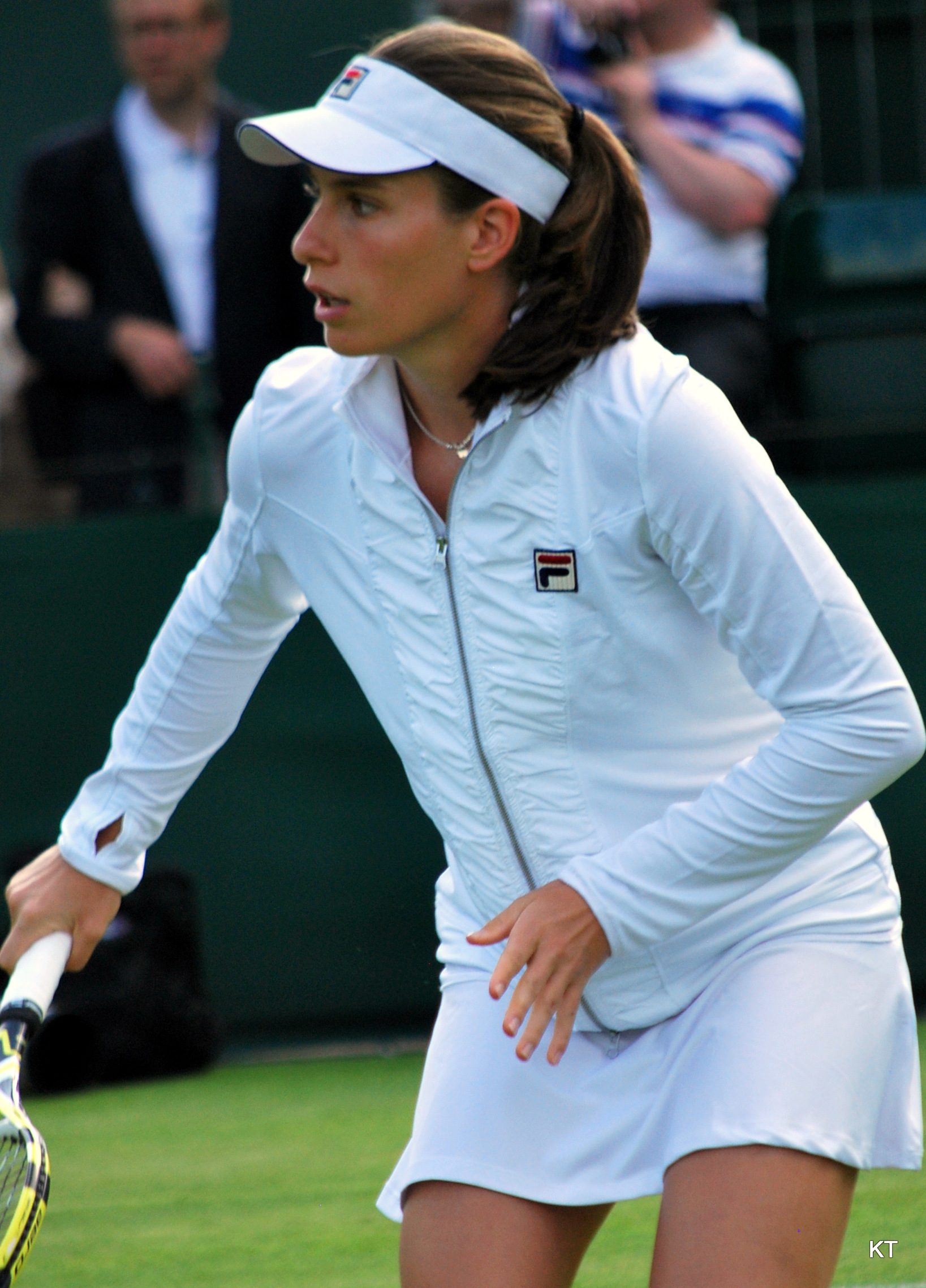 Johanna Konta at 2012 Wimbledon Championships